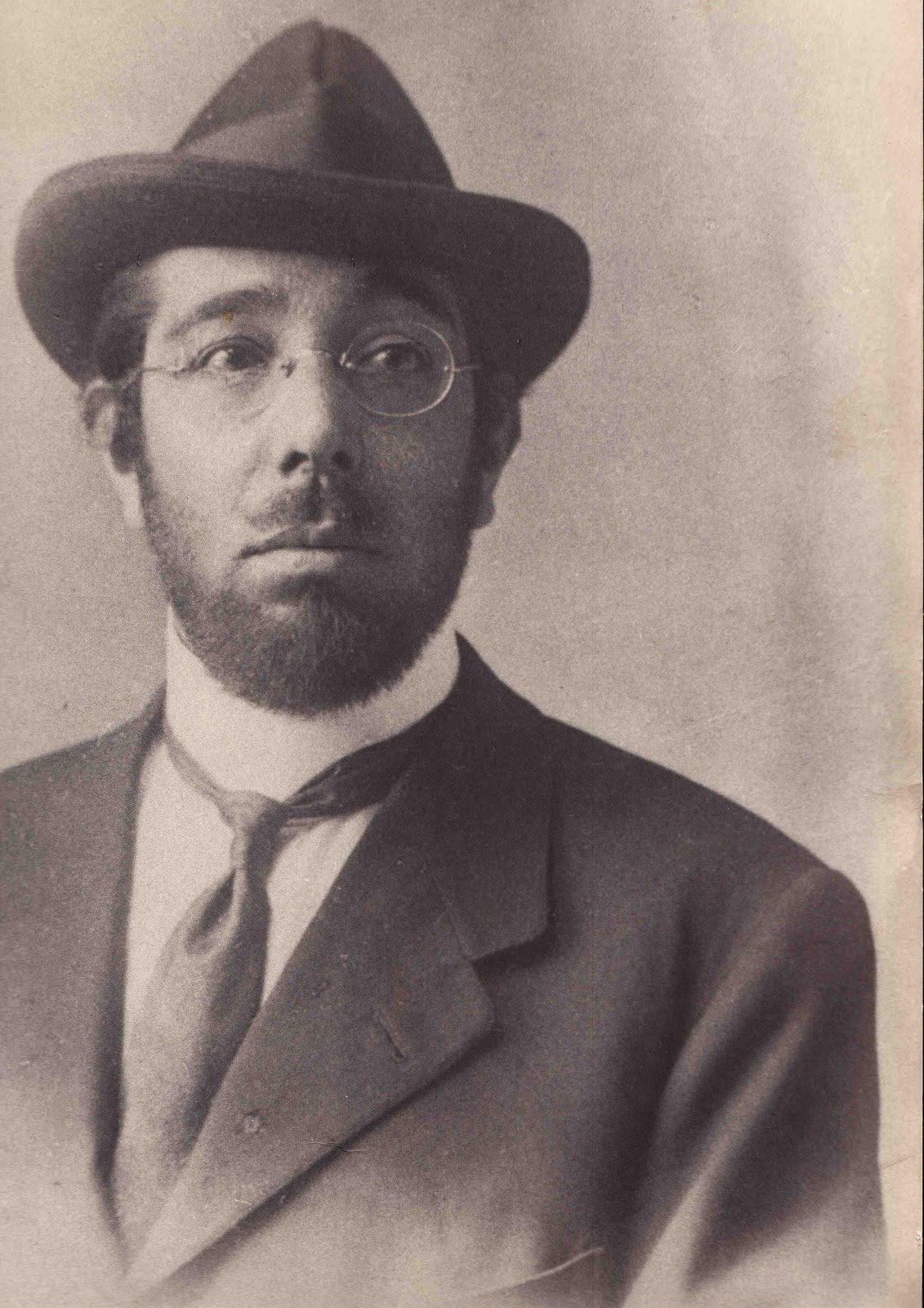 Sultan Abdelaziz of Morocco wearing European clothing.